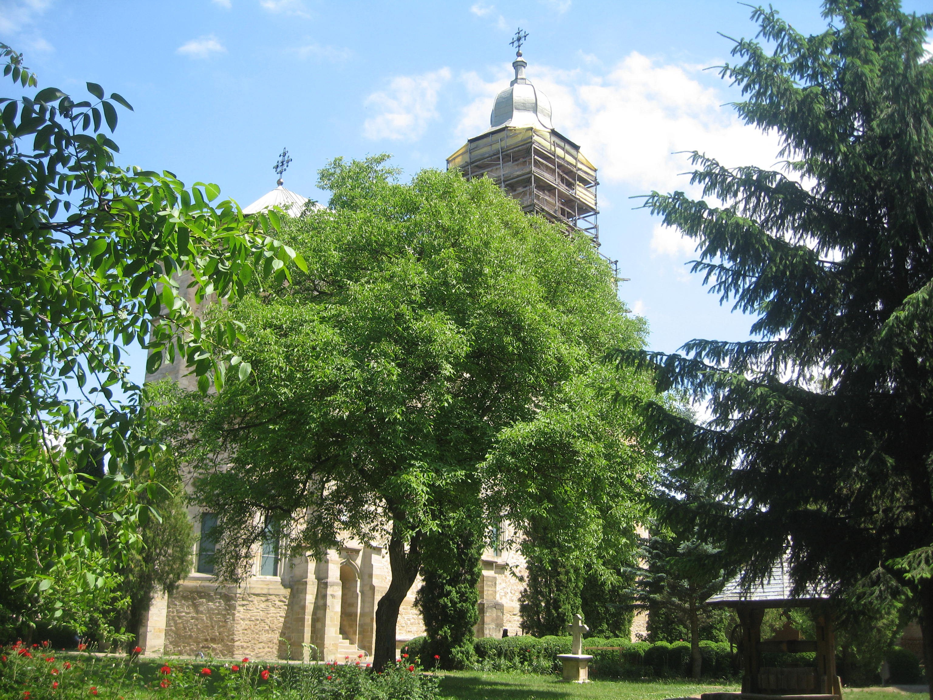 Dragomirna Monastery